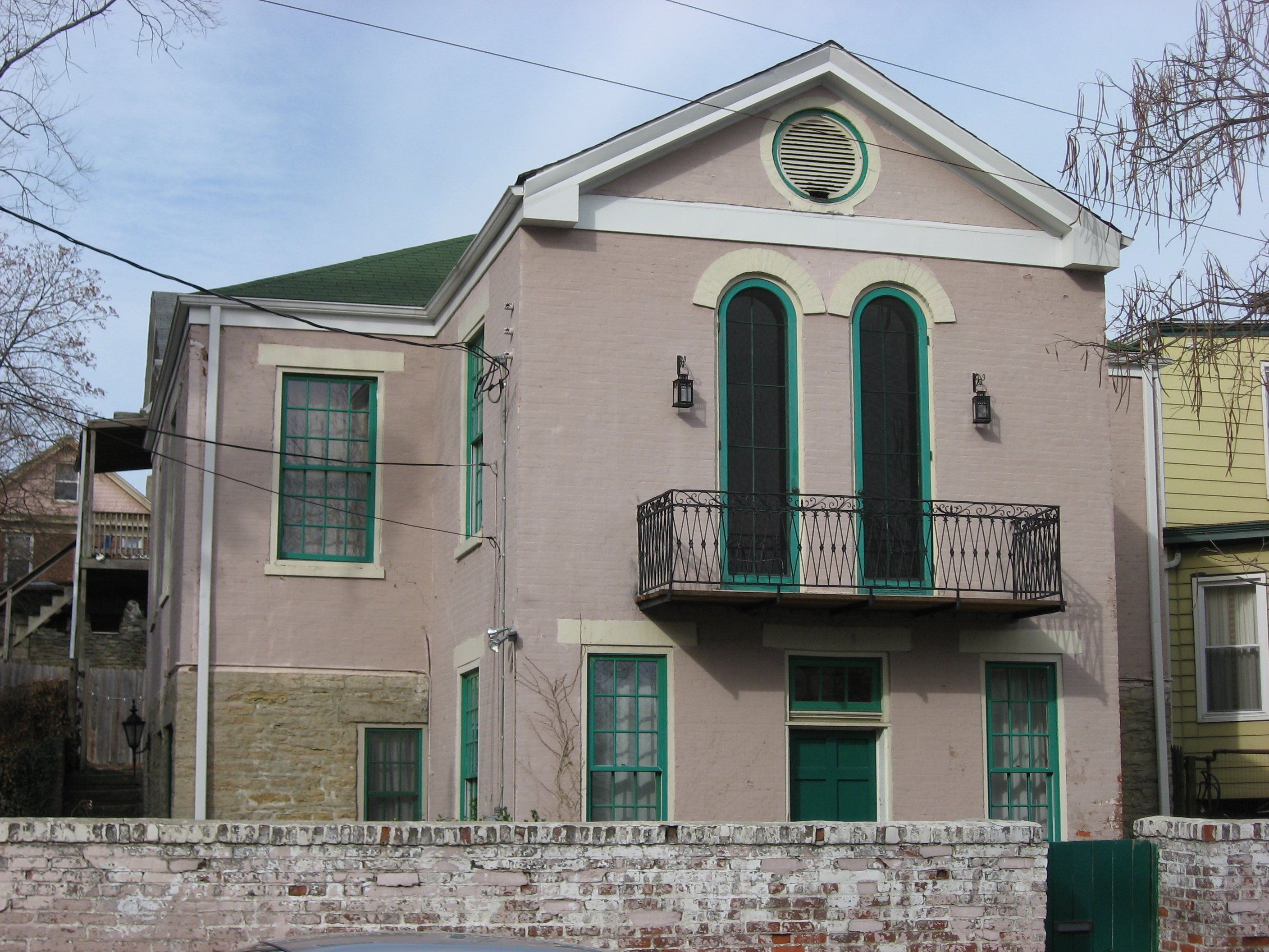 Front of the Charlton Wallace House, located at 2563 Hackberry Street in the East Walnut Hills neighborhood of Cincinnati, Ohio, United States. Built in 1840, it is listed on the National Register of Historic Places.